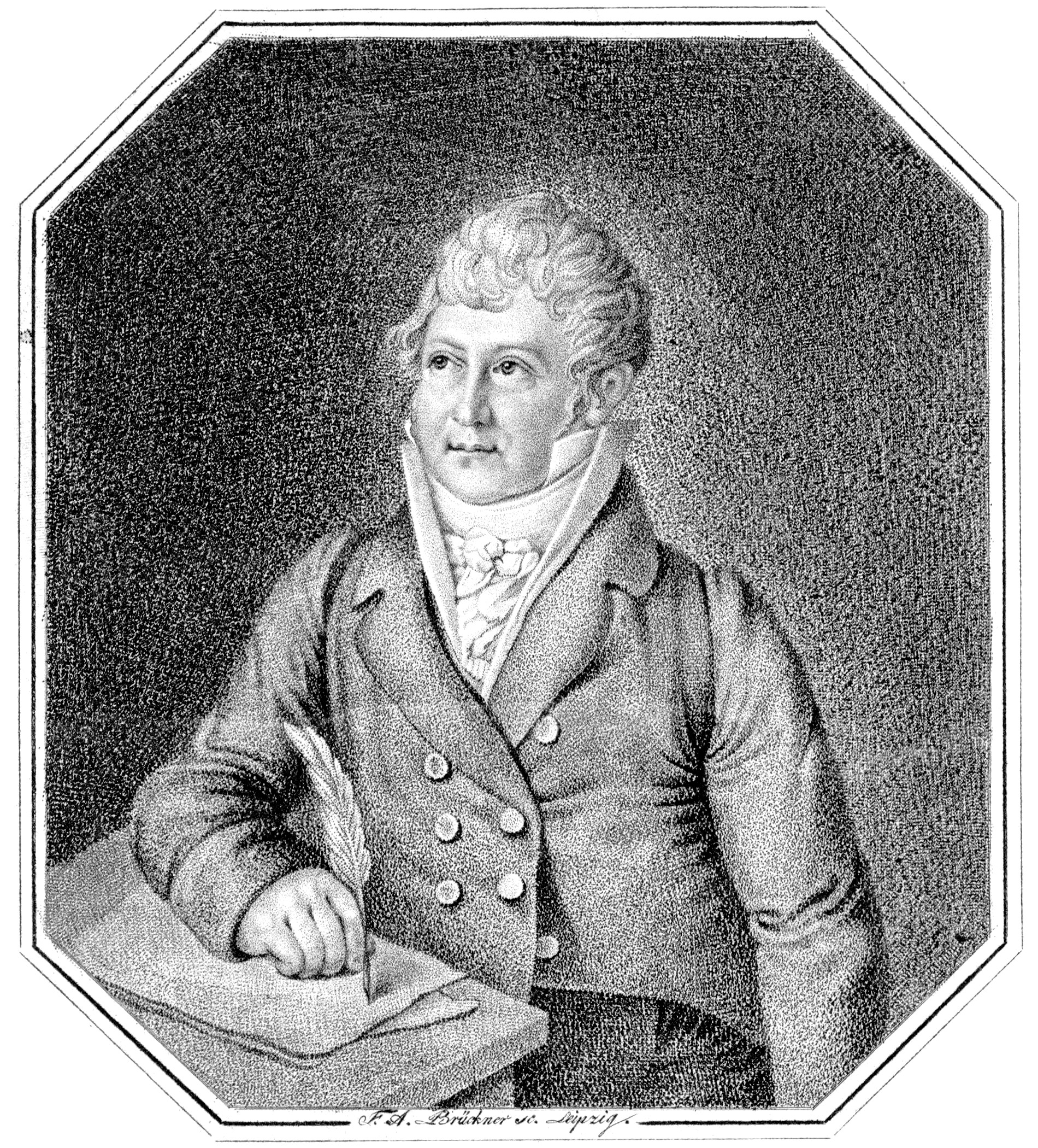 Depicted person: August Eberhard Müller